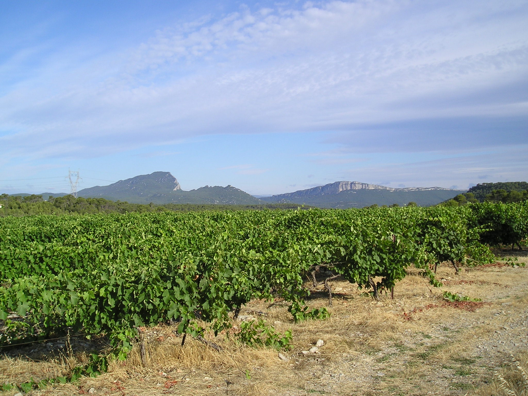 In Hérault, France, north-west of Guzargues, the vineyard of Plan d'Auzières on the foreground. In the far background, the pic Saint-Loup on the left, the Castle of Montferrand in the center and the Hortus on the right are photographed from the South-East, the pic Saint-Loup on the right and the castle of Montferrand on the left are photographed from the East.